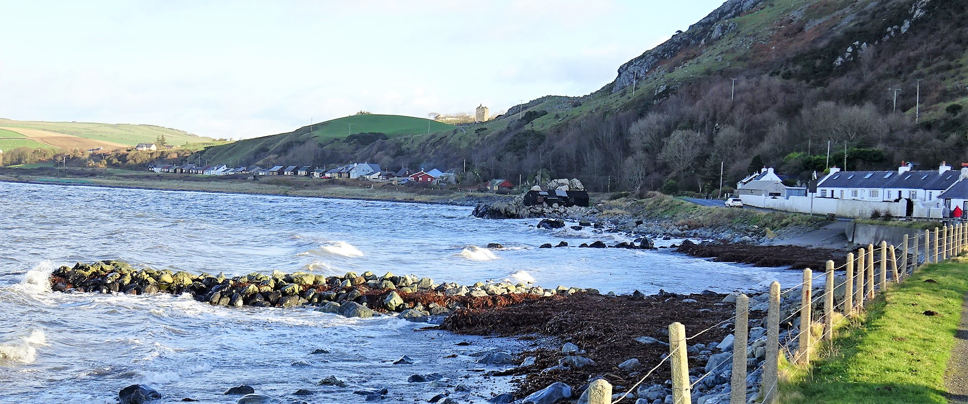 Old port and fishery cottages, Carleton Bay, Lendalfoot, South Ayrshire, Scotland.